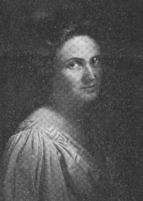 Playwright Marion Craig Wentworth (1872-1942) on the cover of The Socialist Woman, April 1908.